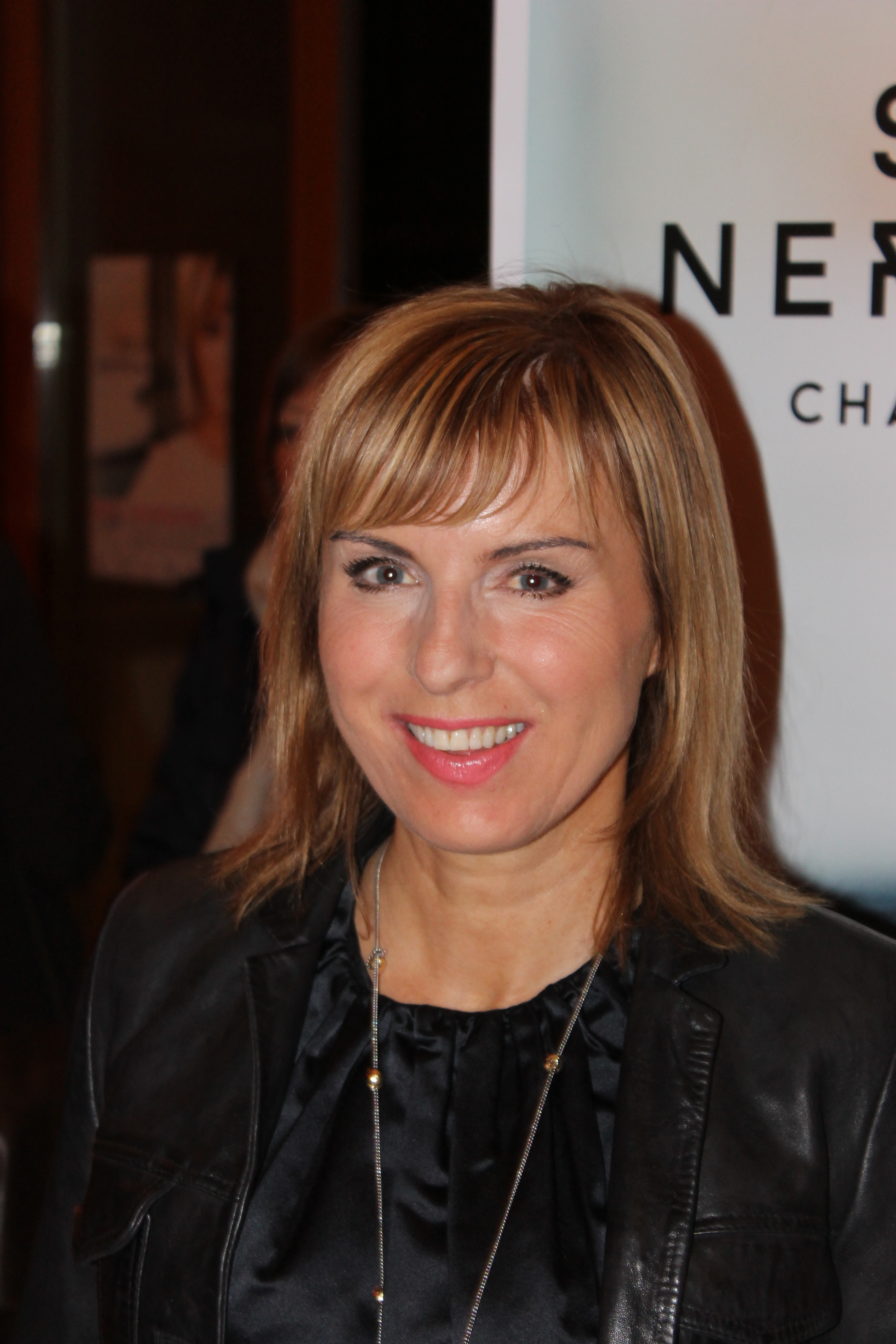 Norwegian jazz singer Silje Nergaard at a concert in Münster, Germany, in April 2015.